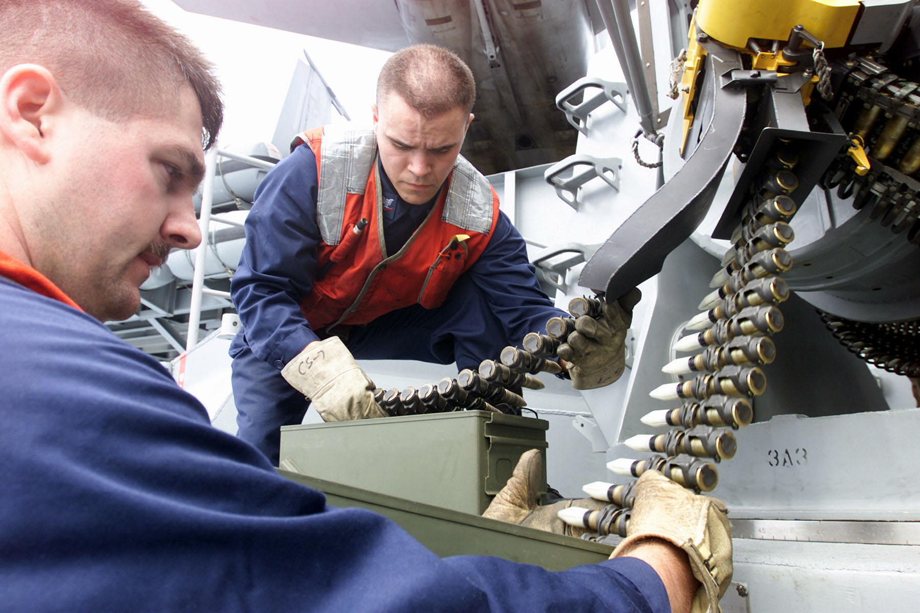 Fire Controlman 1st Class (FC1) Howard Forsythe from Mikado, Michigan, loads live ammunition as FC3 Christopher McCoy from Pocatello, Indiana, downloads dummy rounds from an MK-15 Close In Weapon System (CIWS), aboard the USS HARRY S. TRUMAN (CVN 75).